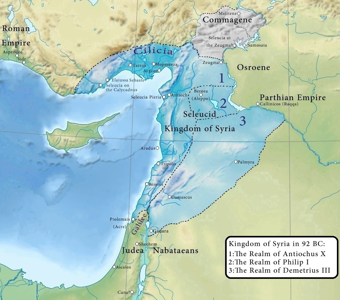 Following the defeat of Antiochus VII (died 129 BC) against Parthia, Syria contracted to the west of the Euphrates.[1] Parthia established the river as its western border and included Osroene.[2] To the north, the kingdom of Commagene bordered the Euphrates in the East, Cappadocia in the north (and included Melitene (Malatya) in its borders), the Amanus range in the west and Syria in the south (where Zeugma was the first Syrian city).[3] In the west, Cilicia between the Calycadnus river (Göksu) and the Orontes valley was under the rule of the Seleucids;[4][5] the Romans established a province of Cilicia in 102 BC but it did not include areas geographically in the region and the city of Side was the eastern point of that province.[6] In the south, Galilee fell to Judae except for the coastal city Ptolemais (Acre);[7][8] the latter remained part of Syria until the end of the Seleucid dynasty in 64 BC,[9] and it was the base for Antiochus X's widow Cleopatra Selene,[10] who was probably a resident of the city when her husband died.[11] Gadara was the Kingdom's southern city.[12]